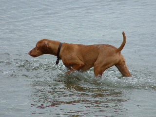 Photograph of a young Vizsla with a solid rust coat. The Vizsla in this picture is seven months old. The official registered name of the dog is "Onpoint's New Ruler", owned by Olivia (Donaher) Dodd, bred by John and Debbie Reid of Onpoint Vizslas.